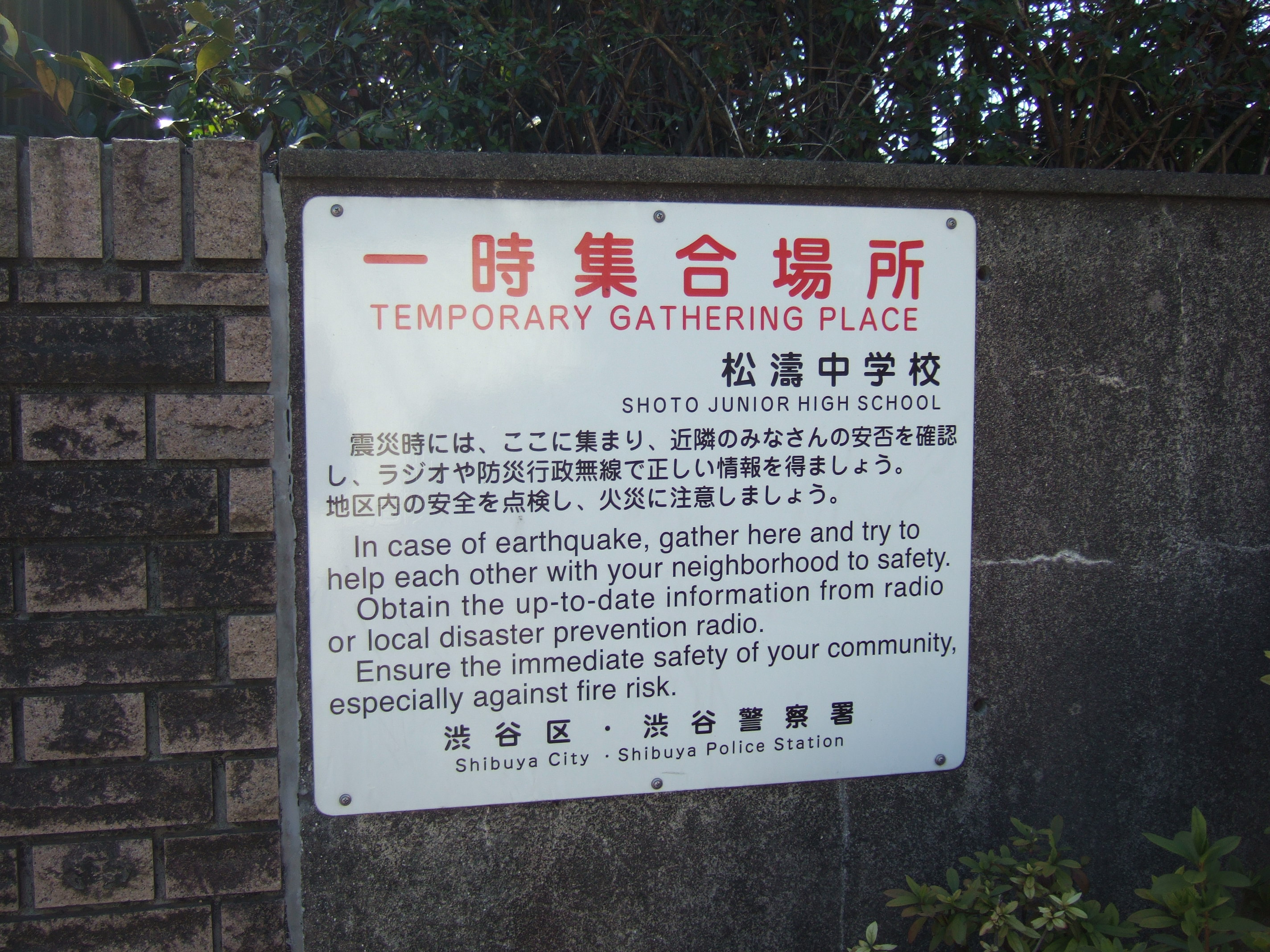 Temporary gathering place in case of earthquake, Tokyo, Shibuya.